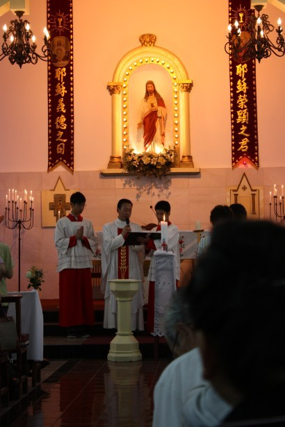 shanghai_hongkou_catholic_church